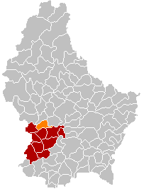 Own edit of Kanton CapellenLocatie.png